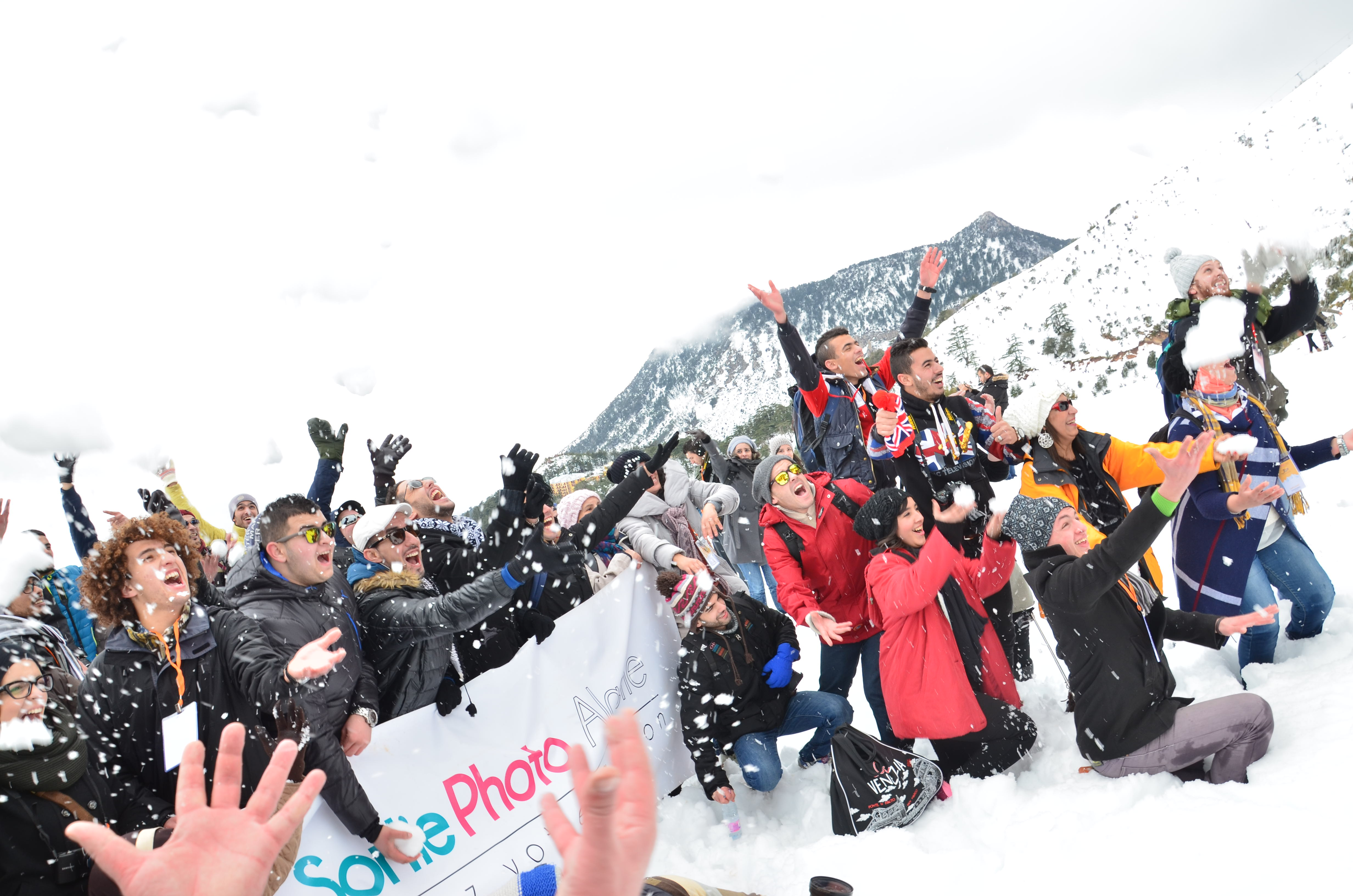 This is an image with the theme "Play" from: Algeria